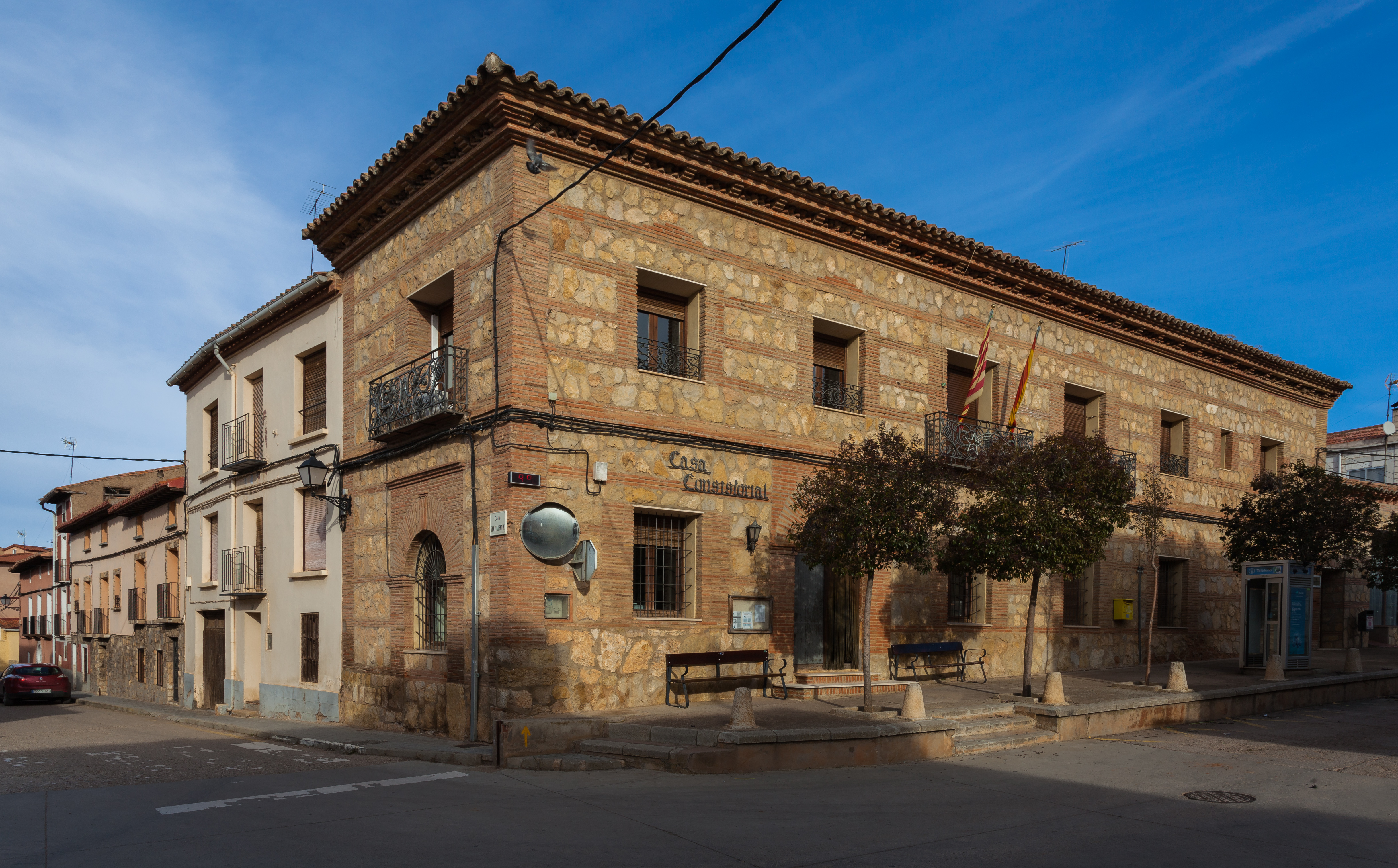 Town hall, Báguena, Teruel, Spain